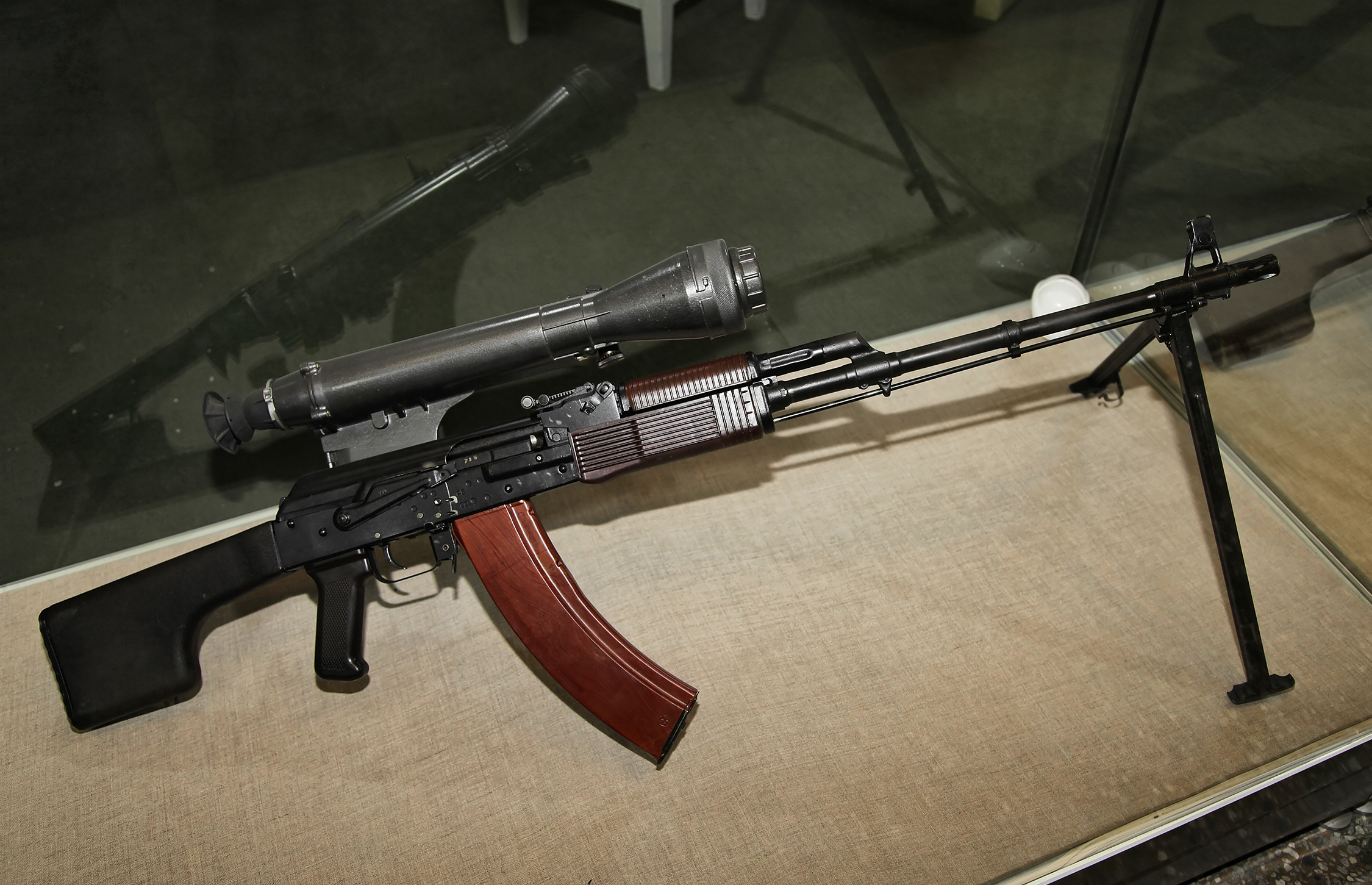 5.45mm machine gun RPK74N2 with night scope 1PN58